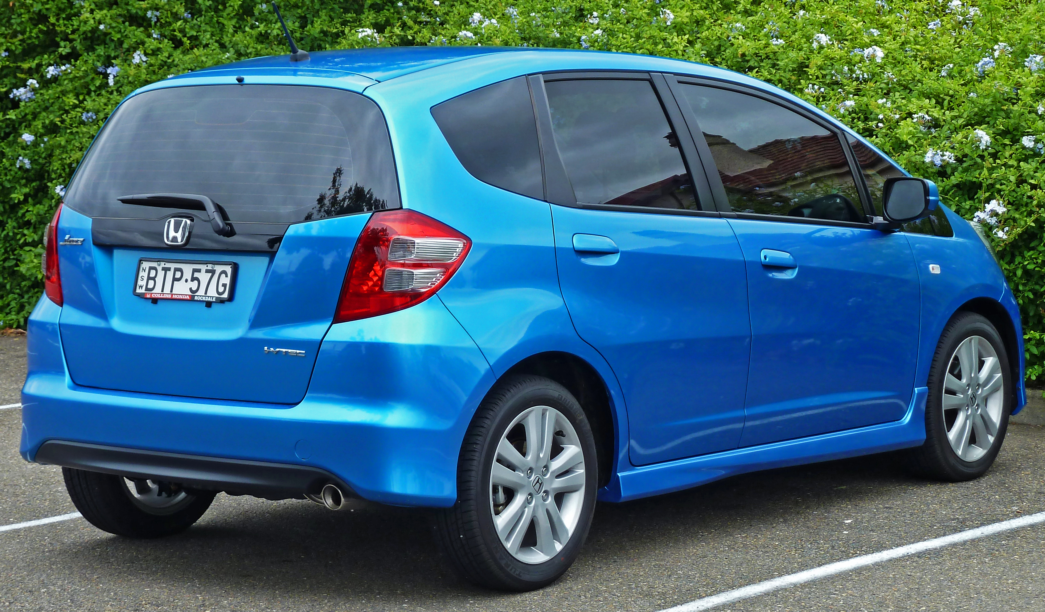 2008–2010 Honda Jazz (GE) VTi-S hatchback. Photographed in Ramsgate, New South Wales, Australia.